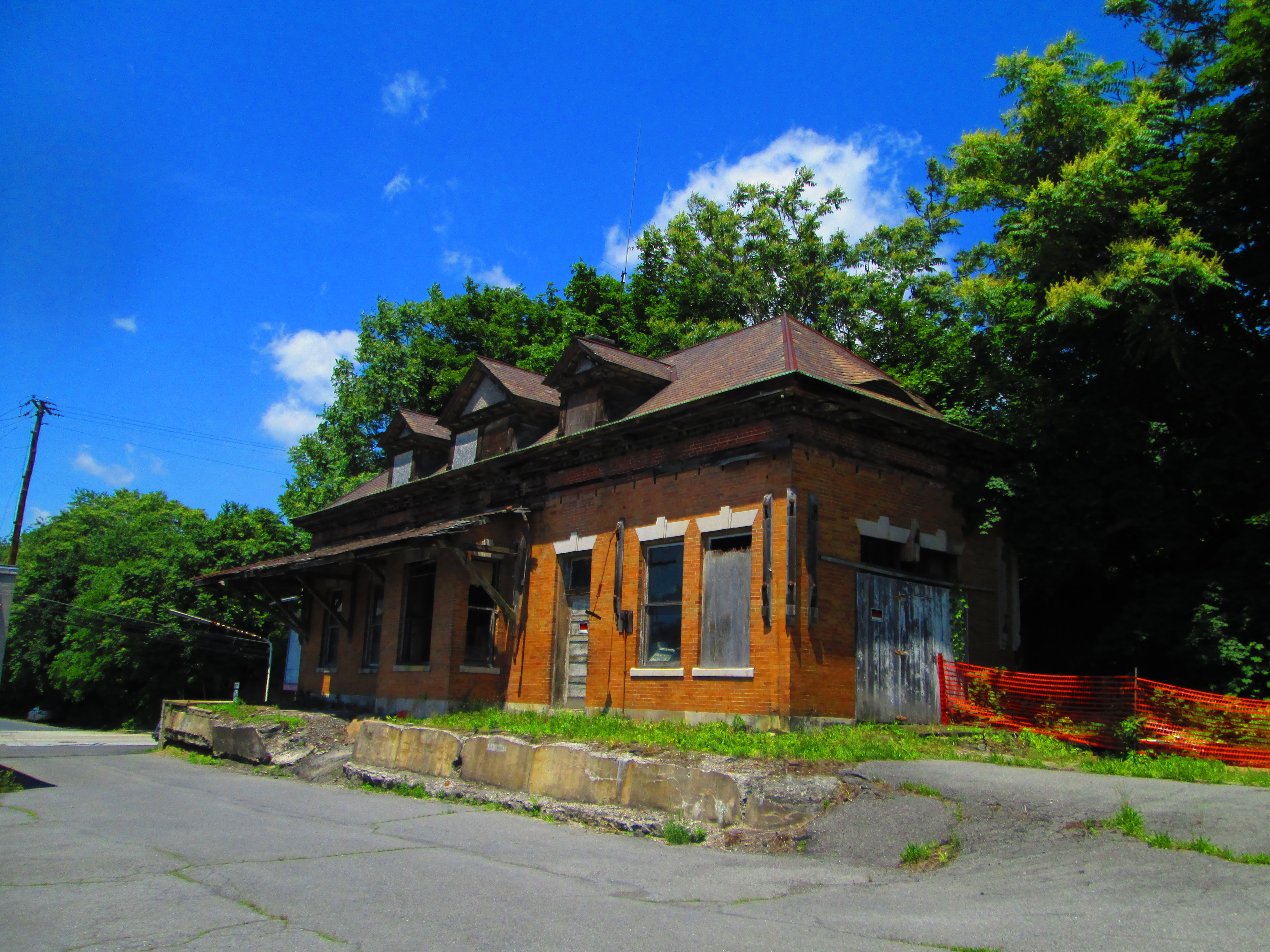 The former Pennsylvania Railroad station in the borough of Newport, Pennsylvania.